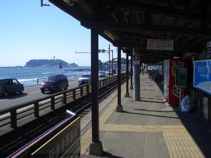 Platform of Kamakura-Kōkō-Mae Station